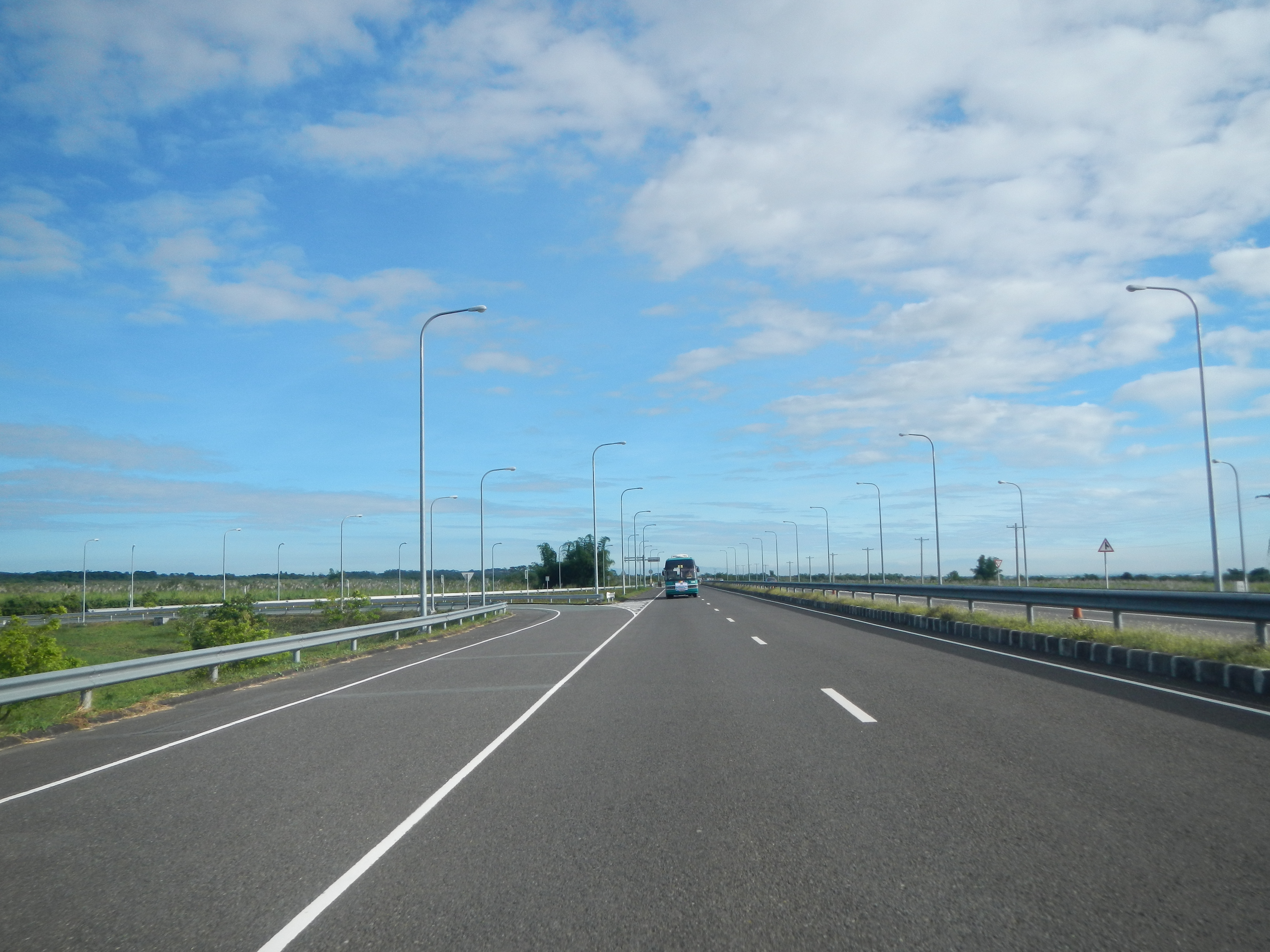 Upload Wizard photos of - - Pan-Philippine Highway[1] or Daang Maharlika - along the scenic and most beautiful Subic–Clark–Tarlac Expressway SCTEX [2] taken from a UV Van Express going to Balanga, Bataan, moving vehicle photography of the amazing scenery of hills and mountains, Sierra Madre Mountain ranges, Central Luzon to Dinalupihan exit at Dinalupihan, Bataan [3] exit going to Layac, Dinalupihan, Bataan.